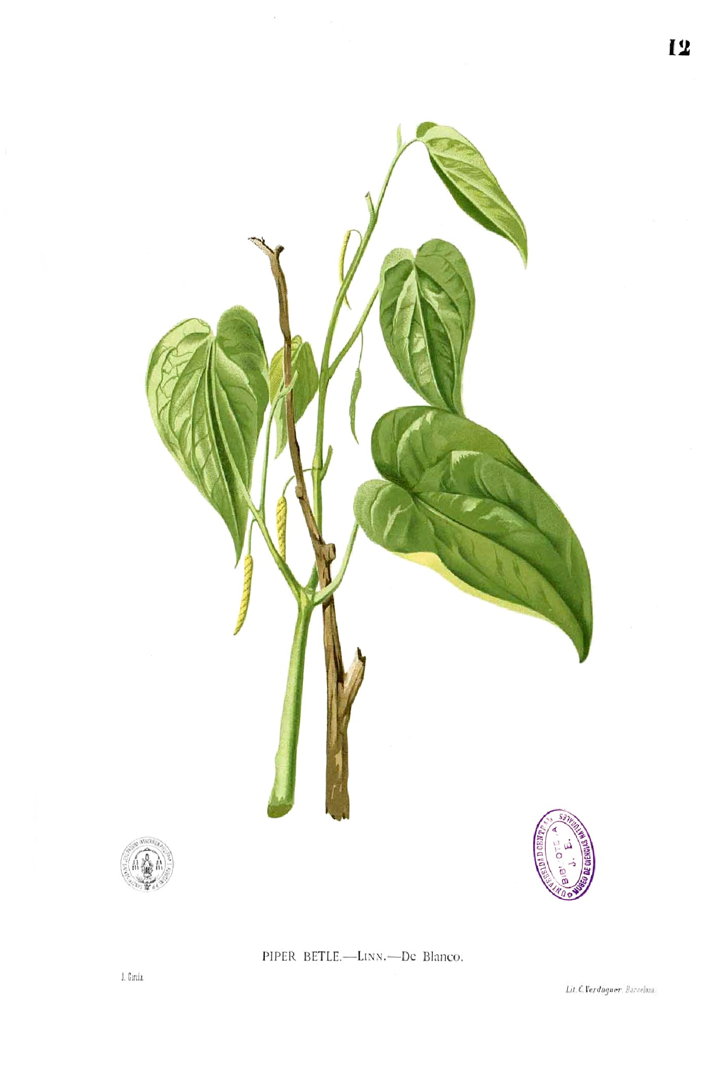 Plate from book